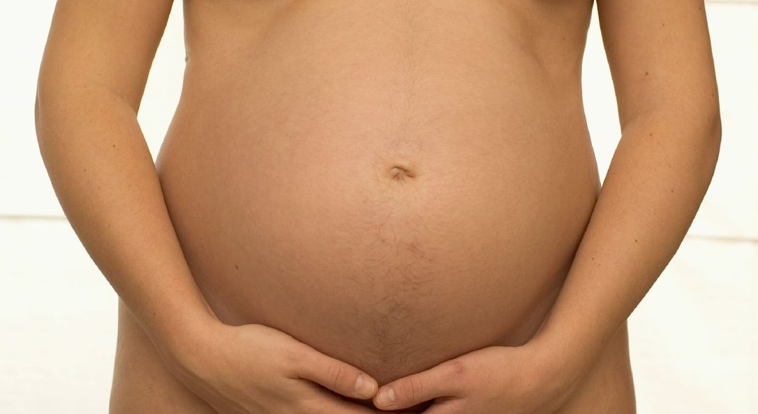 Belly of a woman in her 34th week of pregnancy.